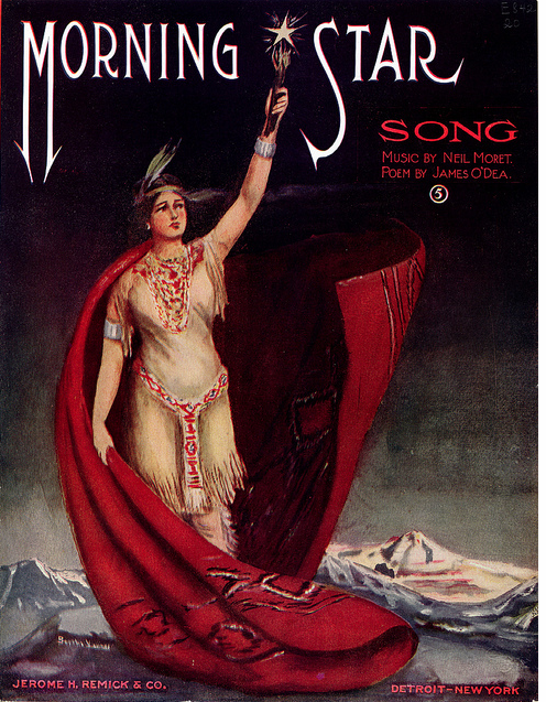 Image of cover of composition "Morning Star" by composer Neil Moret, 1907.